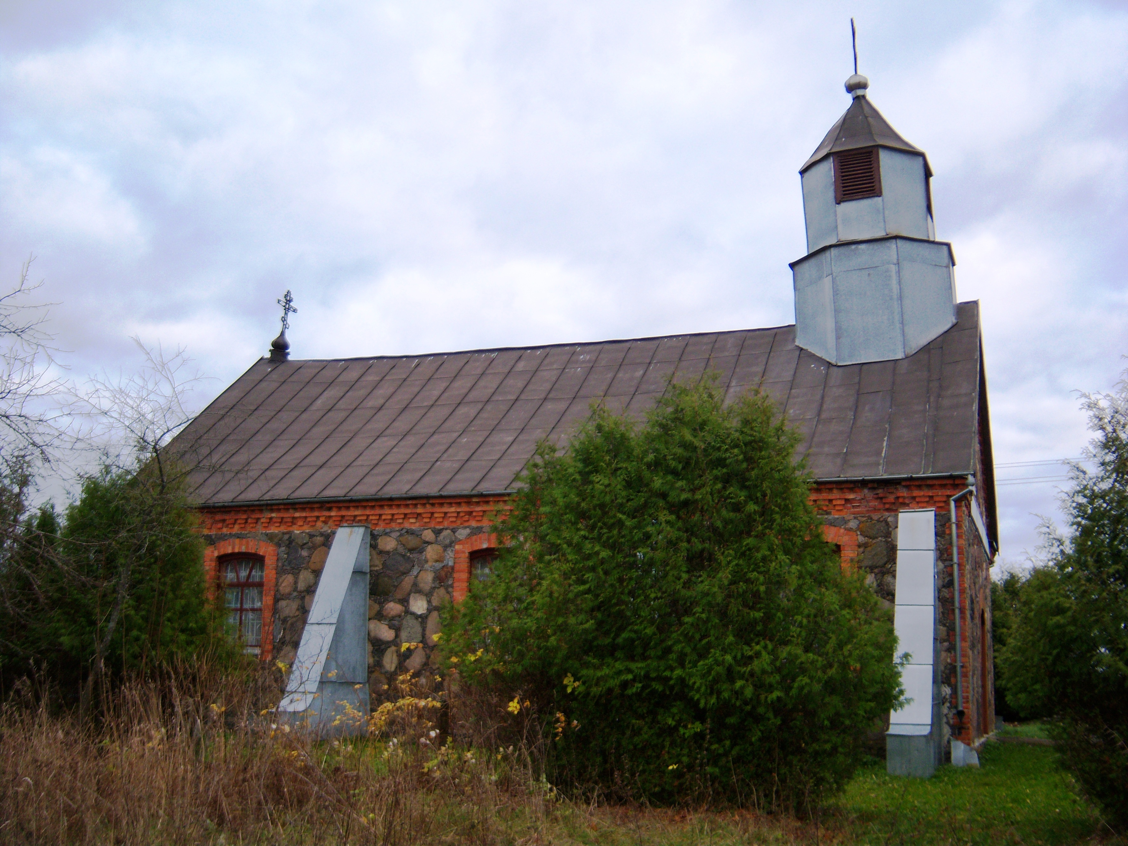 Orthodox Church of Old Believers in Bagdonys, Kupiškis District, Lithuania